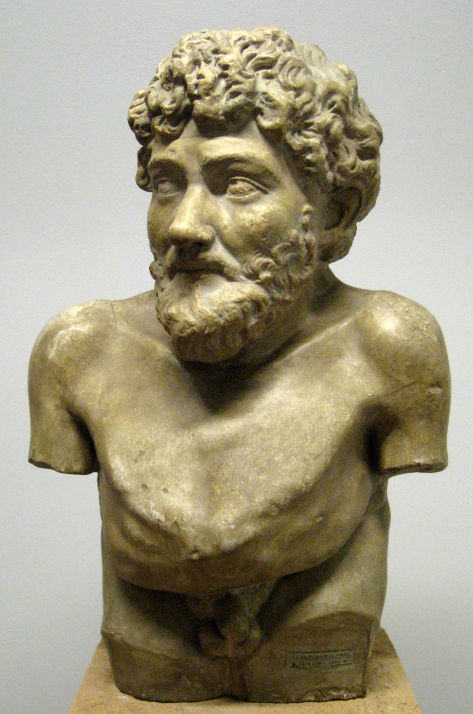 Aesop. Cast in pushkin museum from original in Art Collection of Villa Albani, Roma